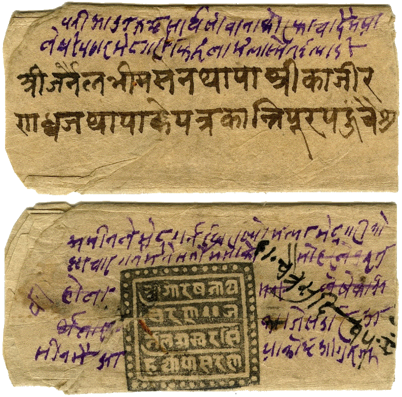 Amar Singh Thapa 's letter to PM Bhimsen Thapa and his junior Kaji Ranadhoj Thapa signed by Black seal of General Amar (variant Ambar)